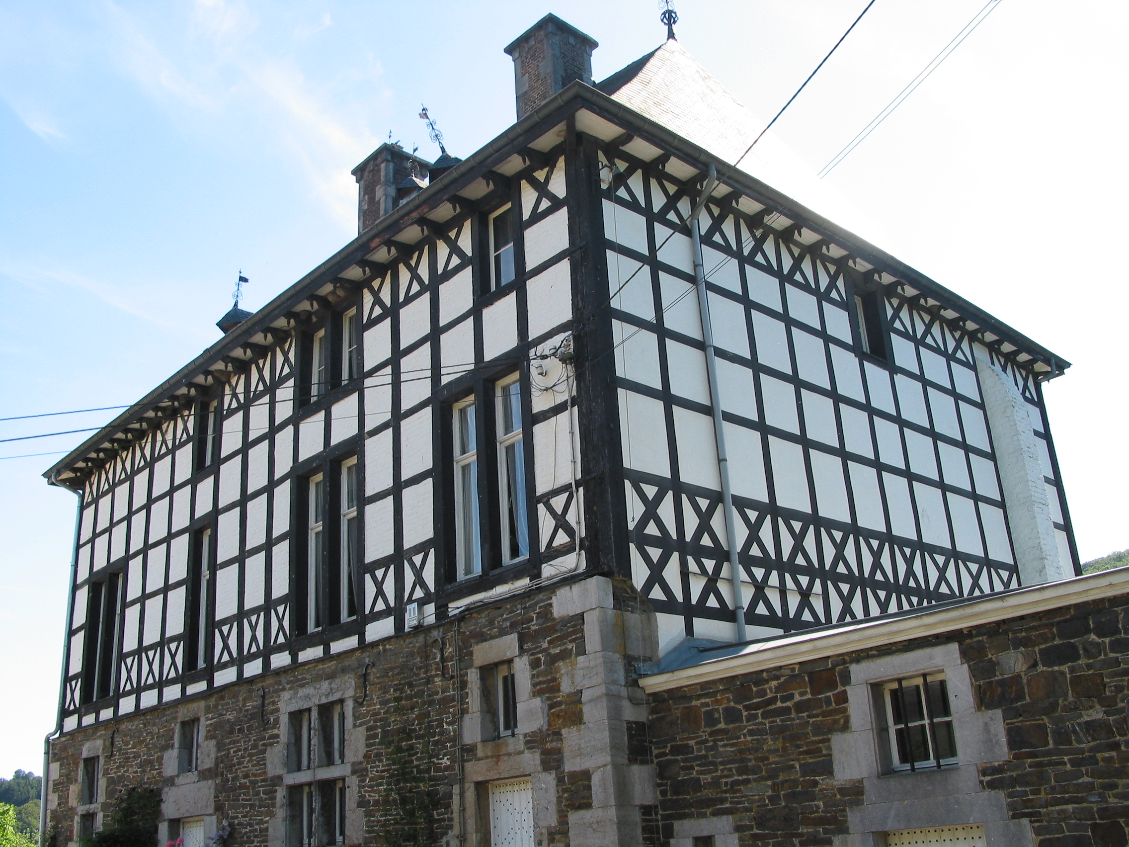 Marcourt (Belgium), the little castle or spanish house (XVIIth century).